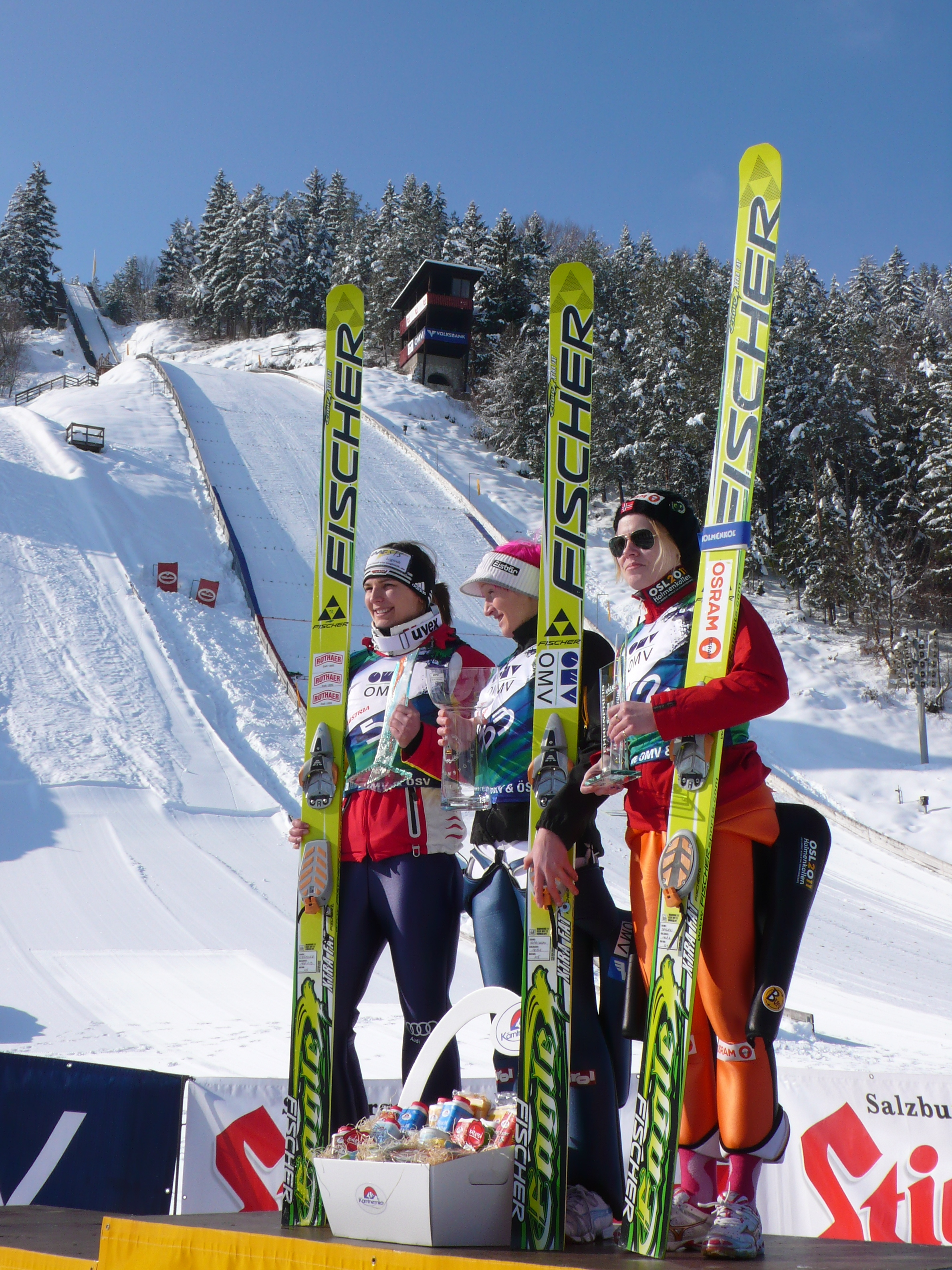 The podium ceremony during the Ski jumping Continental Cup in Villach on the 2010-02-13 : 1st Daniela Iraschko, 2nd Ulrike Graessler 3rd and Anette Sagen